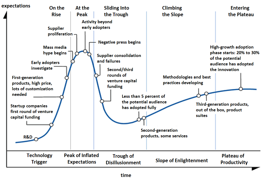 Here is a slide I made to illustrate the Gartner Hype Cycle